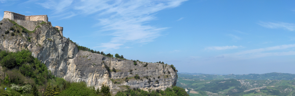 San Leo, Emilia-Romagna, Italy